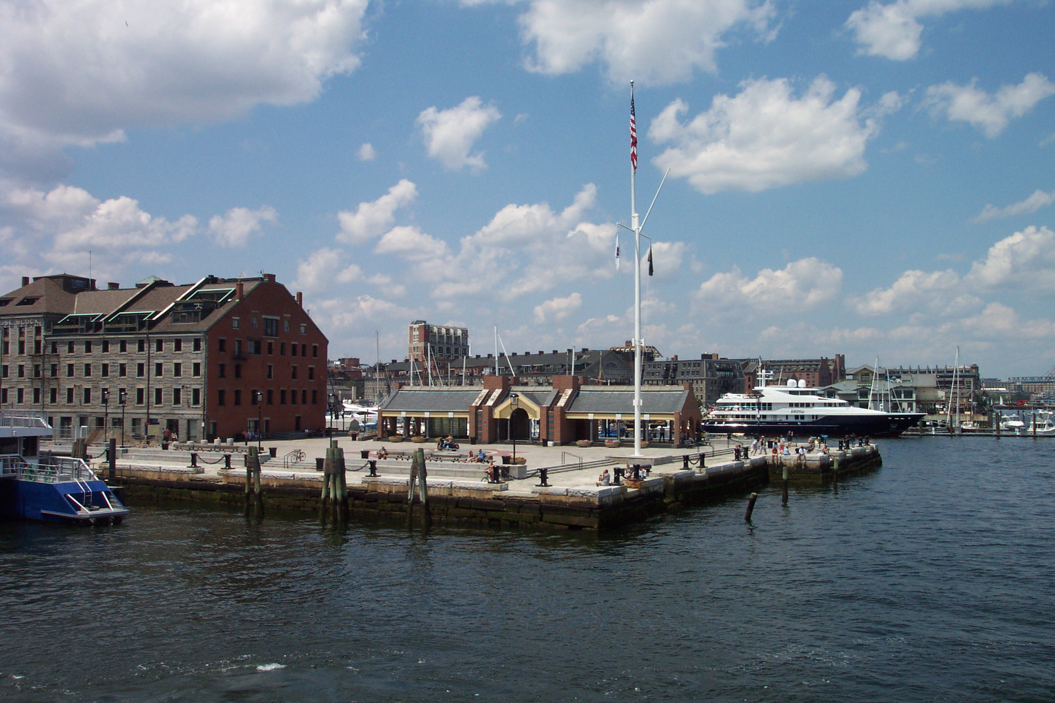 Public plaza at end of Long Wharf in Boston. For more information see the Wikipedia article Long Wharf (Boston).